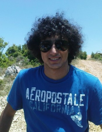 Example of a jewfro